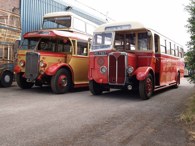 Buses at the Aston Manor Transport Museum Housed in the former Witton (Boroughof Aston Manor) tram depot